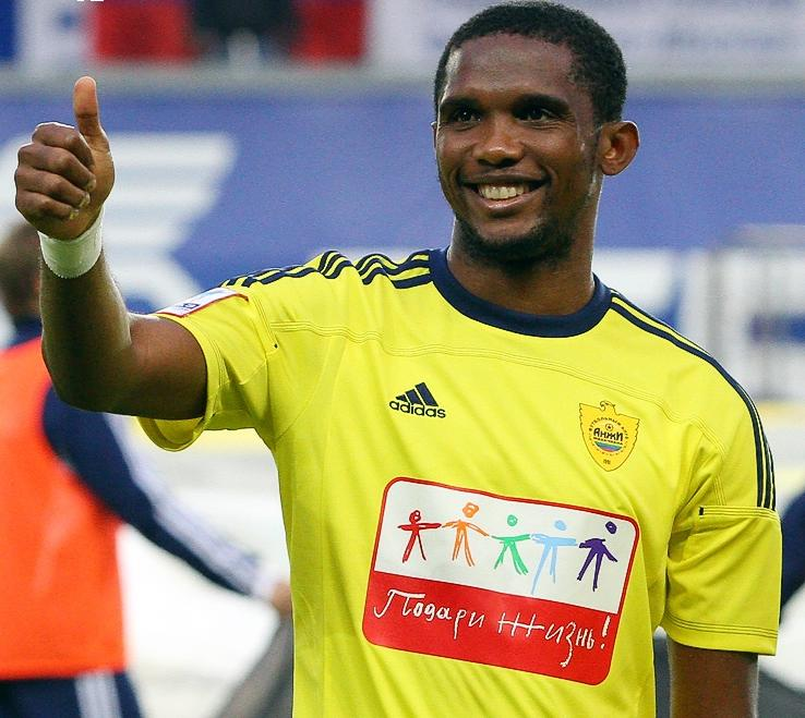 Samuel Eto'o playing for FC Anzhi Makhachkala in a Russian Cup 2011/12 game against FC Dynamo Moscow.